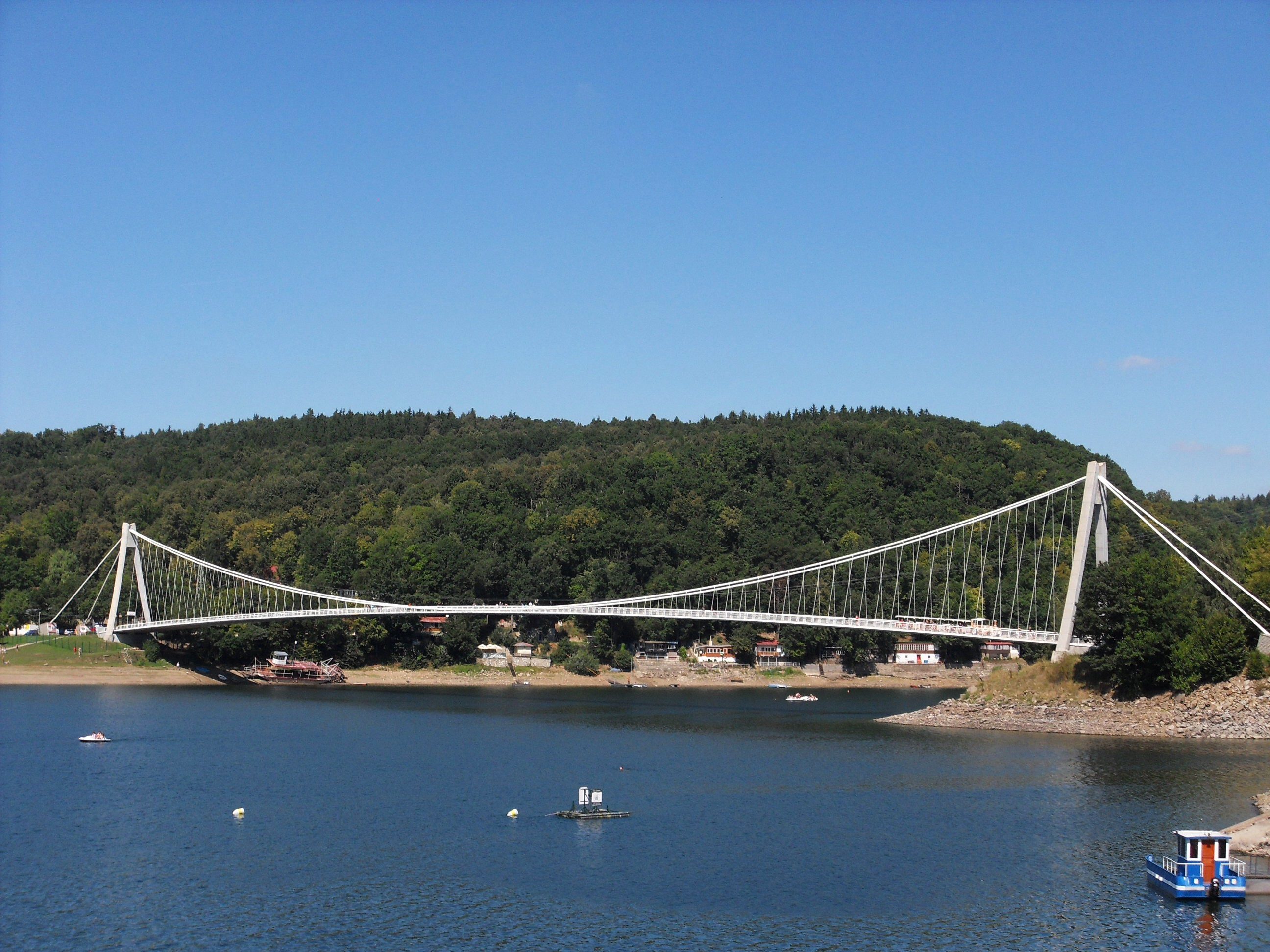 Footbridge across Swiss Bay, Vranov reservoir, Vranov nad Dyjí, Znojmo district, Czech Republic